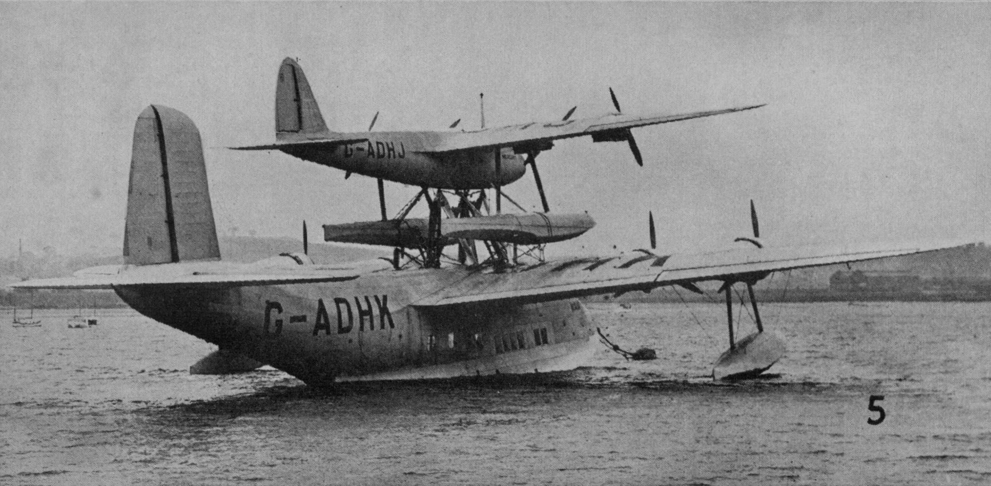 The "Pick-a-Back" plane ready to make her first flight across the Atlantic, August 1938 Approximate date of photograph: 1938-08